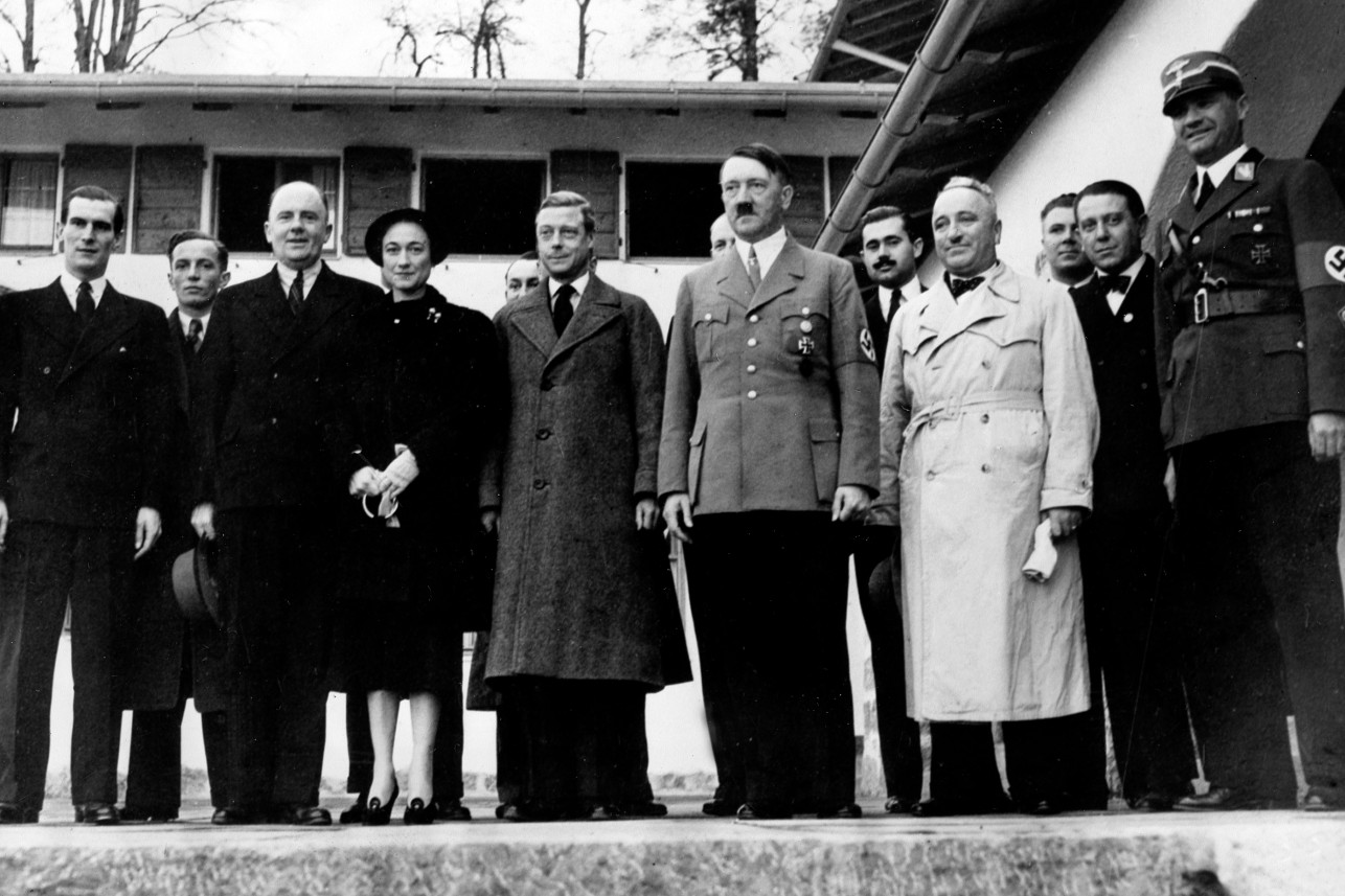 "The Duke and Duchess of Windsor photographed with Mr. Hitler, 22 October 1937, during their visit to The Berghof, his country house in Berchtesgaden".